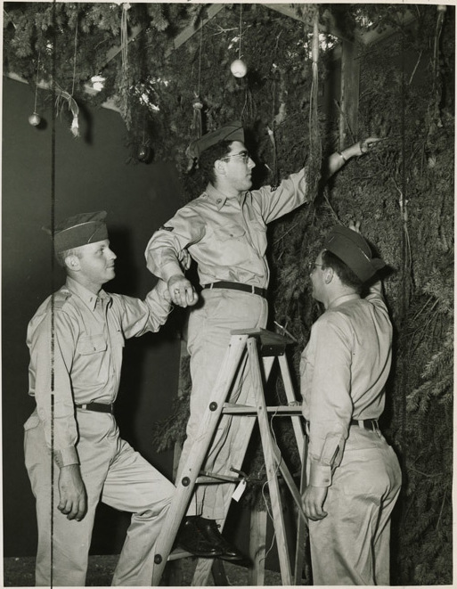 Description: Decorating the Sukkah at Lowry Air Force Base, Denver, Colorado Note: Text on back of photograph: (l-r): Lt. Robert Goldberg, Brooklyn, N.Y.; Airman Maynard Schlager, Boston, Mass.; Chaplain Albert J. Leeman, Brooklyn, N.Y. Photographer: unknown Medium: black and white photograph Date: October 1952 Persistent URL: Repository: American Jewish Historical Society Parent Collection: National Jewish Welfare Board Records Call Number: I-337 Rights Information: No known copyright restrictions; may be subject to third party rights. For more copyright information, click here. See more information about this image and others at CJH Digital Collections. To inquire about rights and permissions, or if you have a question regarding the collection to which the image belongs, please contact the Reference Department of the American Jewish Historical Society by email.